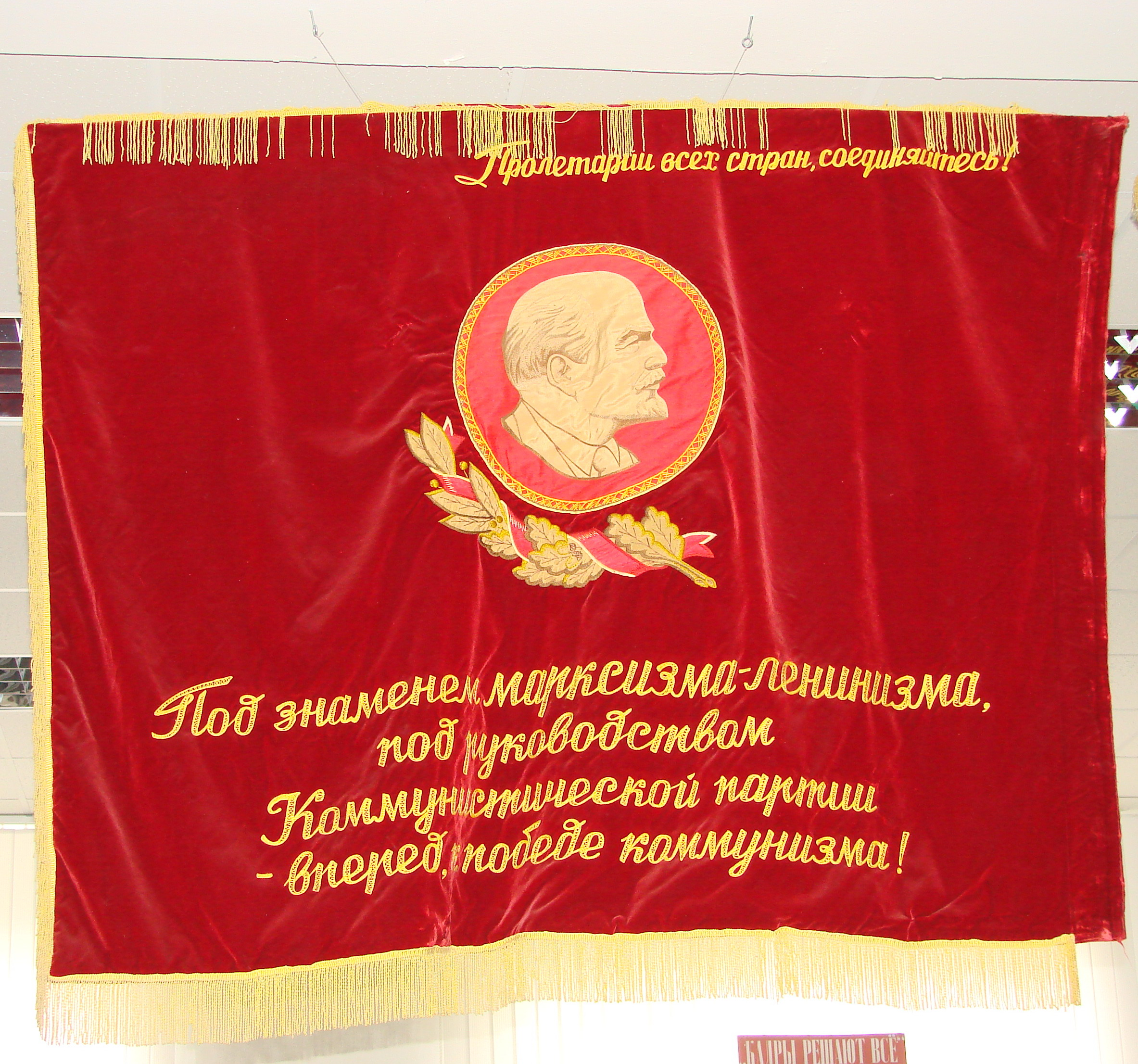 Russia, Vologda PTO museum, socialist competition winner flag